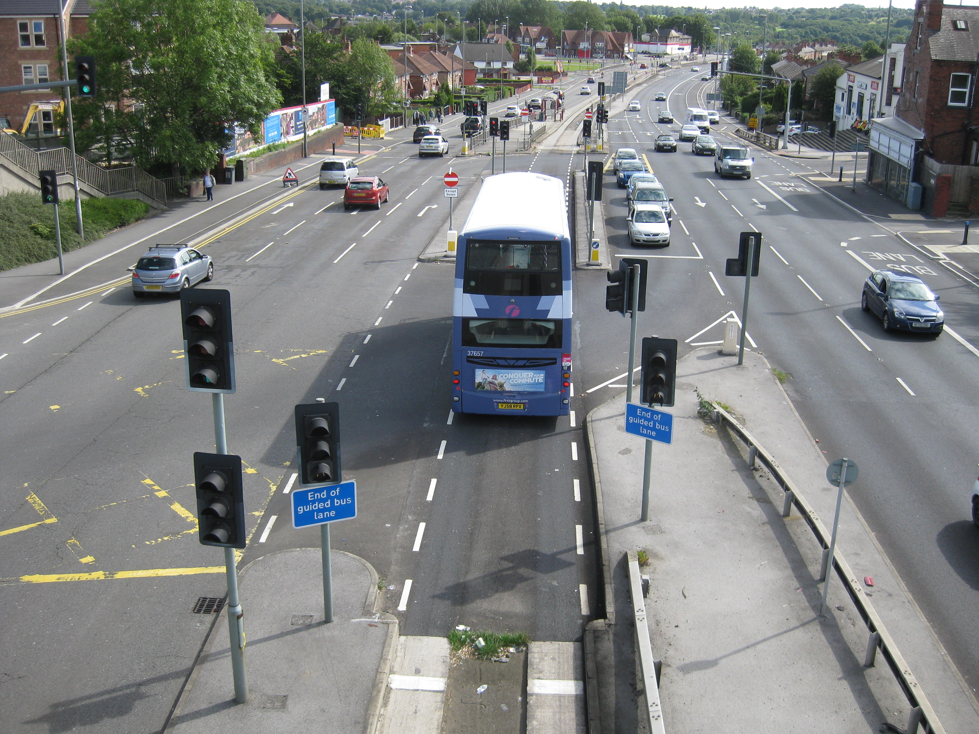 York Road, junction with Harehills Lane, Leeds LS9.View from the pedestrian bridge looking East along the lane for guided buses. Right turning traffic below would go into Osmondthorpe Lane. A guided bus is making the transition across this junction to the next section of guided lane ahead.